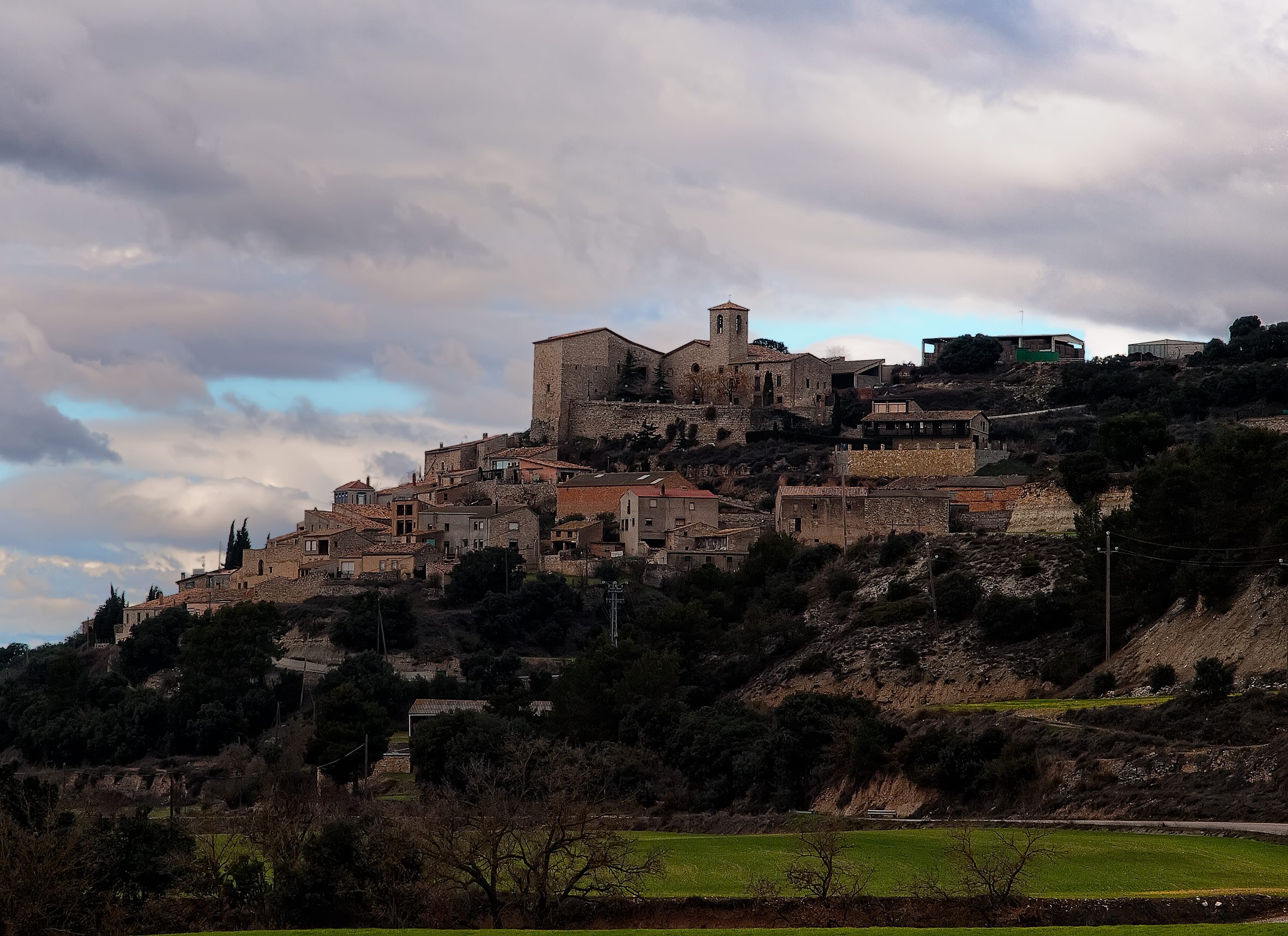 General landscape og Vergós Guerrejat (Catalonia, Spain)